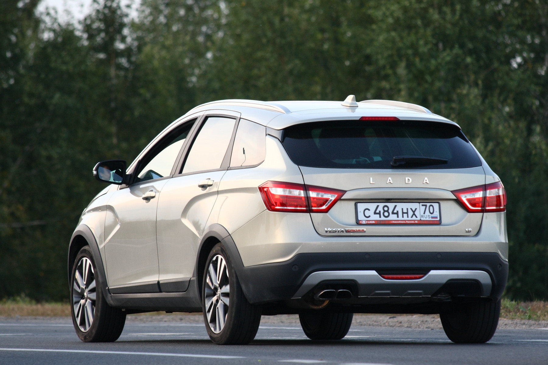 Lada Vesta SW Cross. Photographed in Tomsk, Russia.